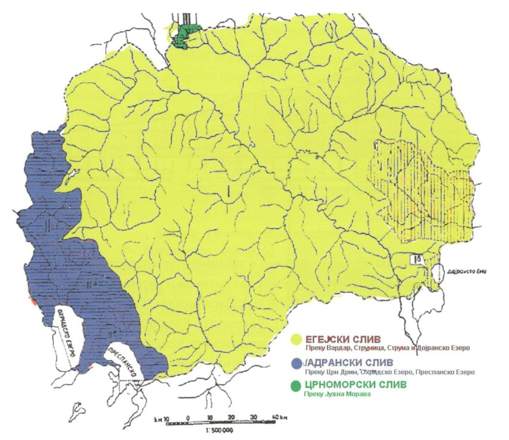 Map with river watersheds (basins) in Macedonia